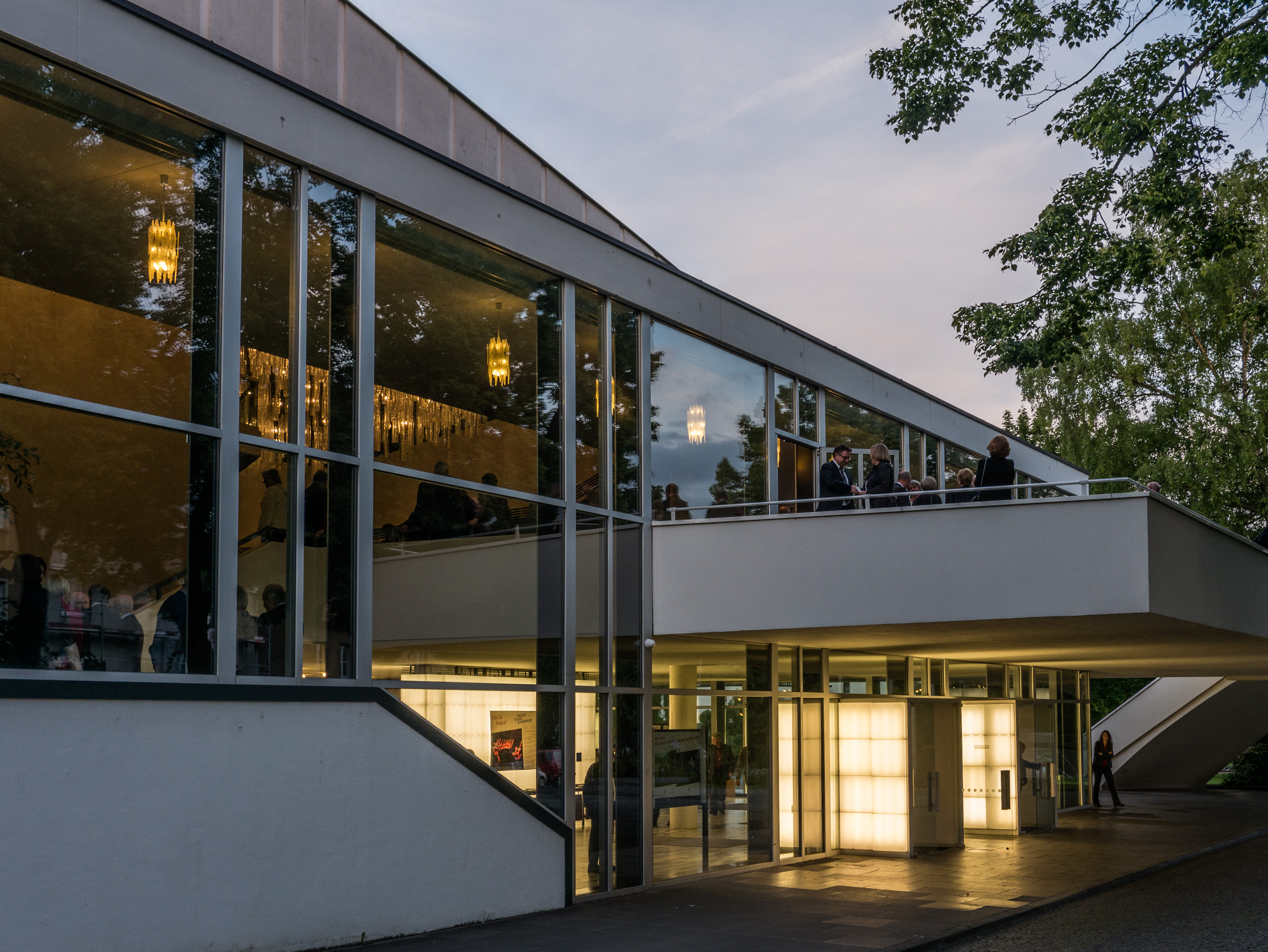 Look at side entrance of the Theater in Schweinfurt